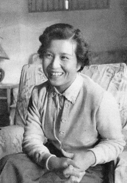 Aiko Mimasu